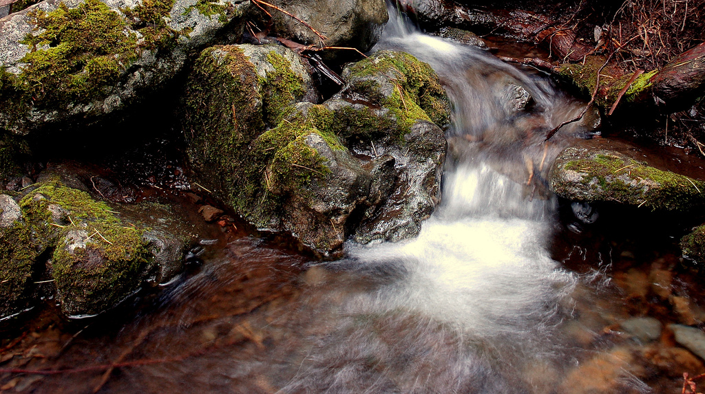 In Hosmer's Grove. The best part of the stream is beyond the fence labeled with this sign.